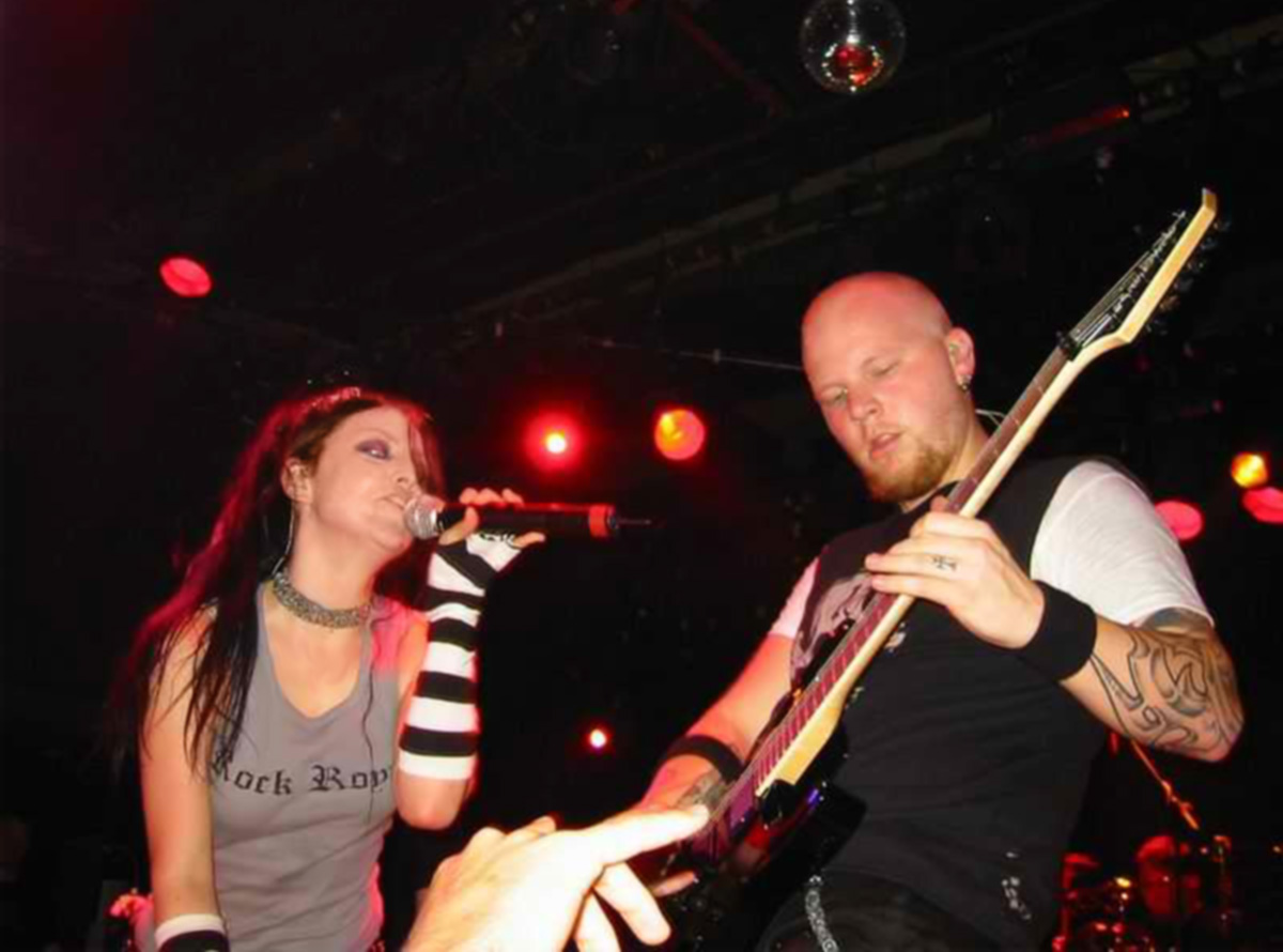 Evanescence performing in Barcelona. May 29, 2003